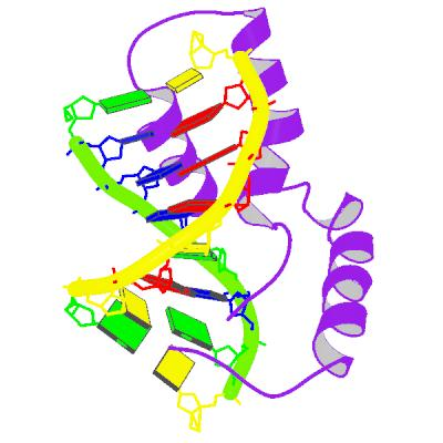 Image of the protein SRY bound to DNA